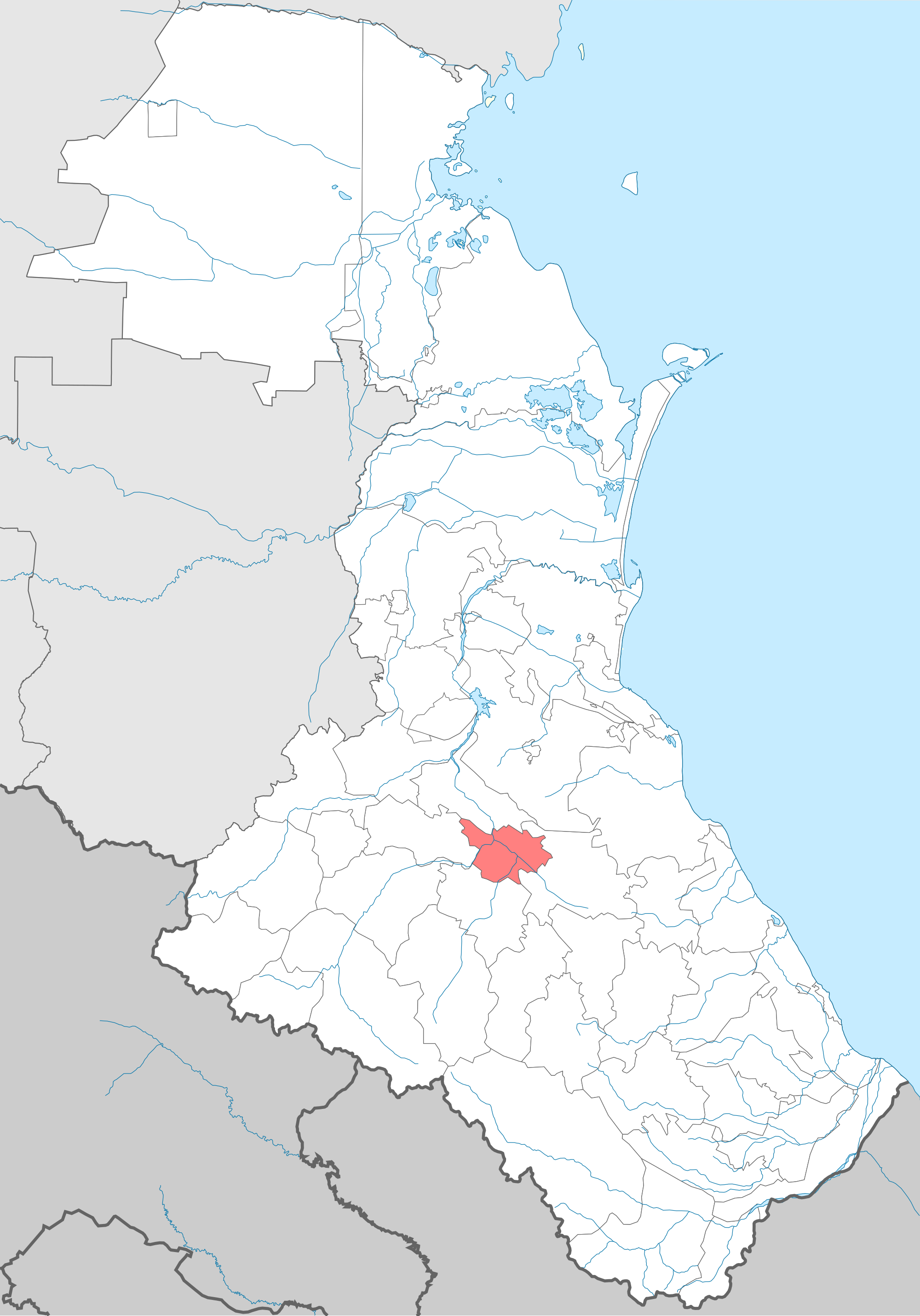 Gergebilsky district locator map